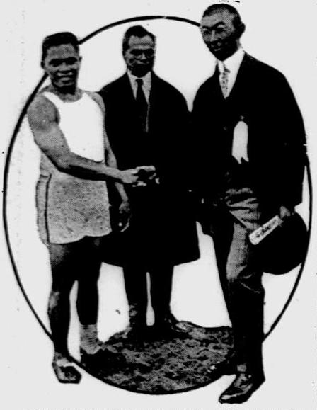 Fortunato Catalon (left), winner of the 1923 Far Eastern Championship Games sprint titles, shakes hands with the Chichibu Prince of Japan (right) at the games in Tokyo. Camilo Osías (center) the then President of Manila University observes.